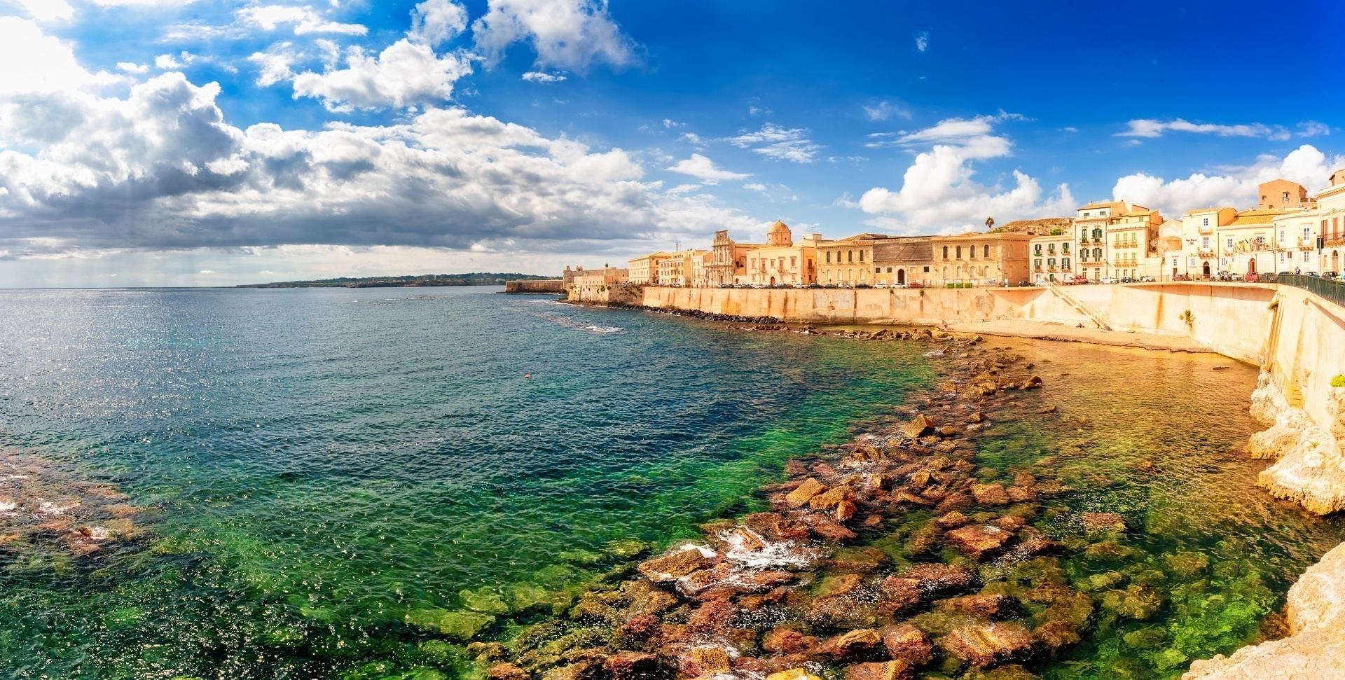 Along the island of ortigia: View from the seafront of Ortigia, to the Maniace Castle.